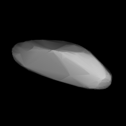 3D convex shape model of 1419 Danzig, computed using light curve inversion techniques. J. Hanuš, J. Ďurech, M. Brož, B. D. Warner (June 2011). "A study of asteroid pole-latitude distribution based on an extended set of shape models derived by the lightcurve inversion method". Astronomy and Astrophysics 530: A134. ISSN 0004-6361. arXiv